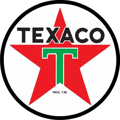 Texaco logo first introduced in 1913 - green T superimposed on a red star with the company name "Texaco" in black